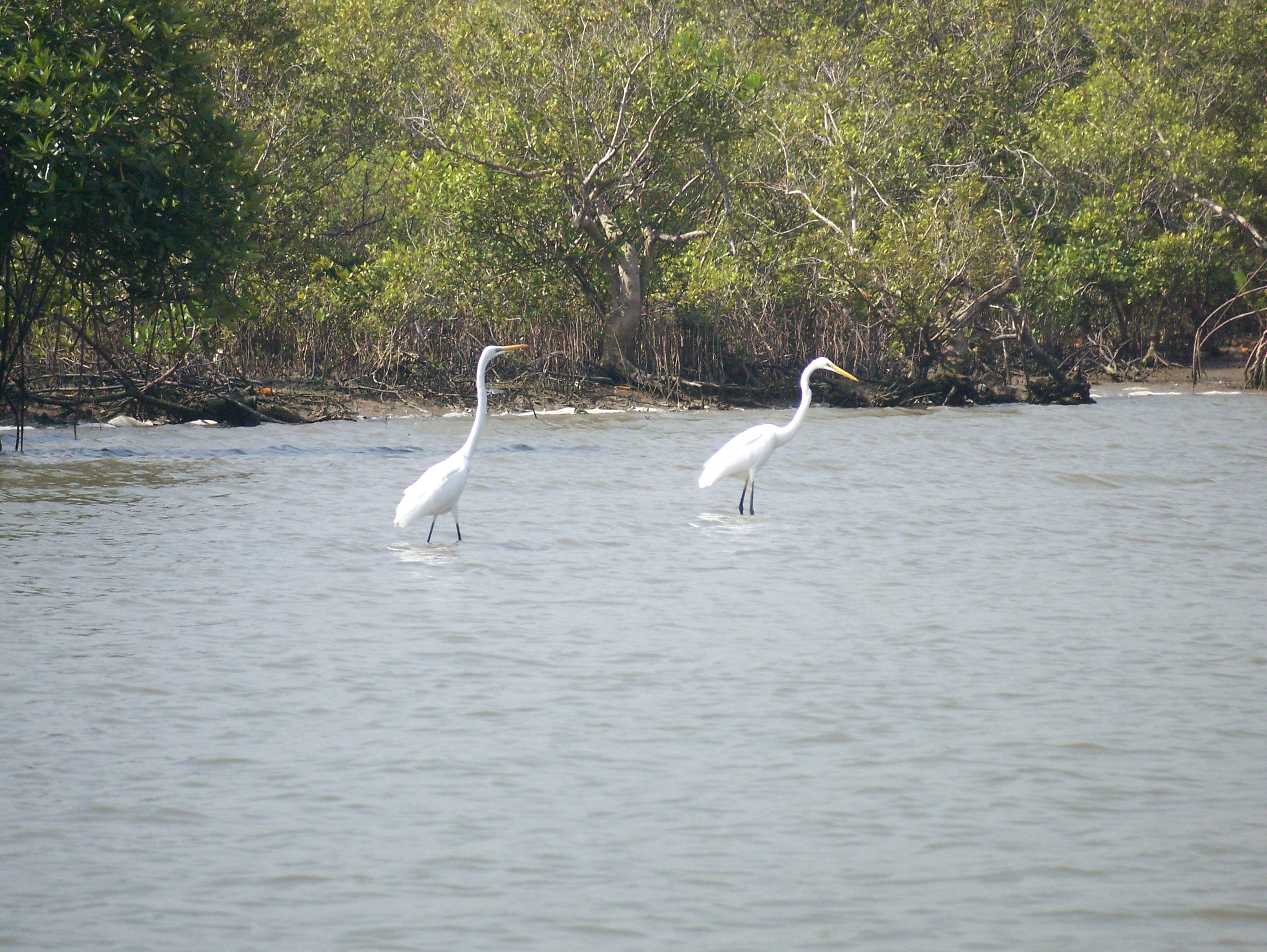 Eastern Great Egret (ardea modesta) in Pichavaram Mangrove forest, Tamil Nadu, India.